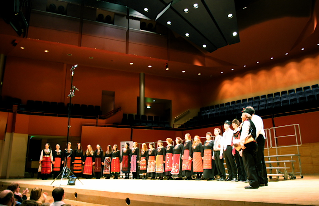 The London Bulgarian Choir, winning "Choir of the Day" in the Open category of the Basingstoke leg of the BBC Radio 3 Choir of the Year competition.